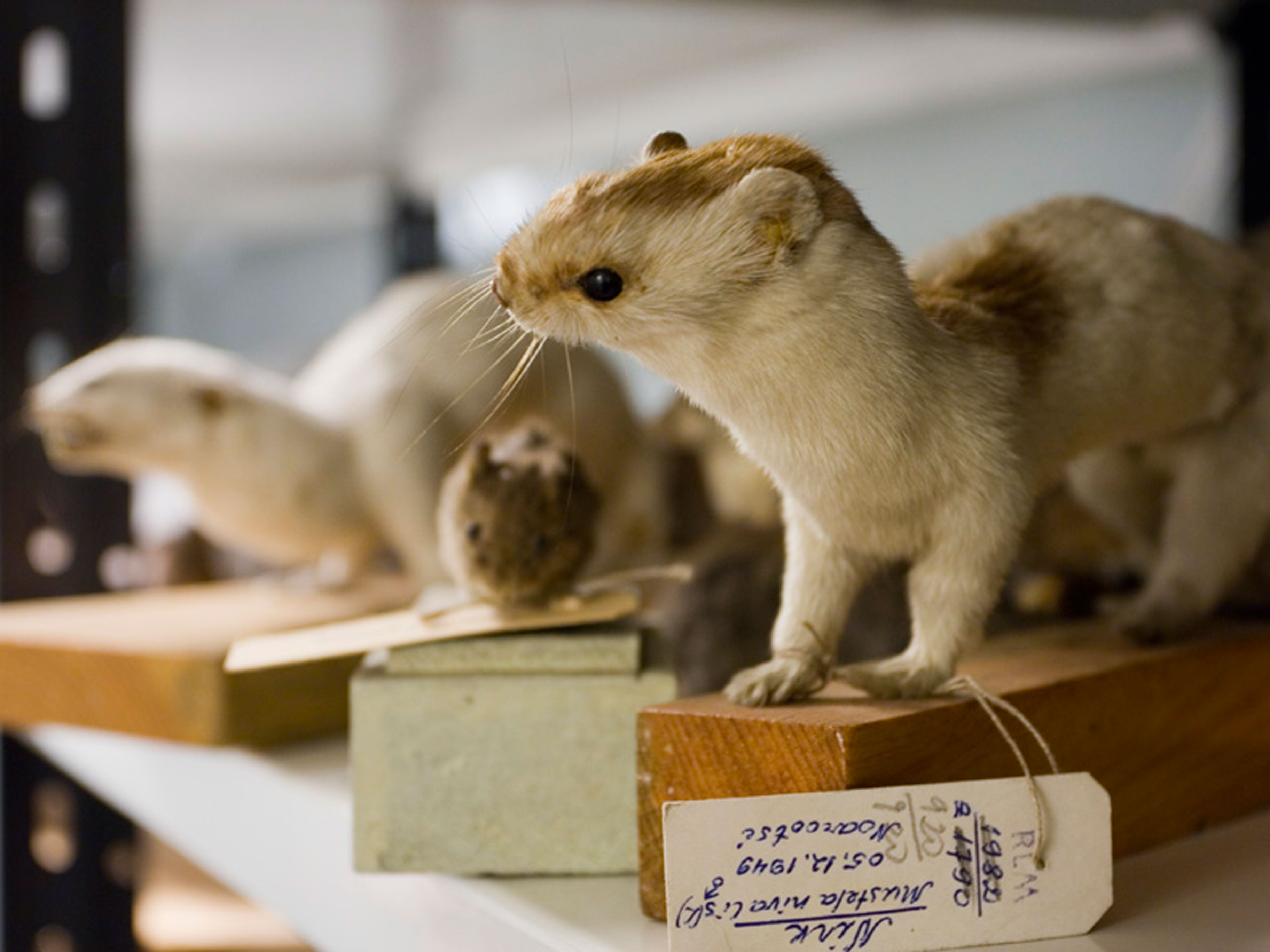 Zoological collections of the Estonian Museum of Natural History